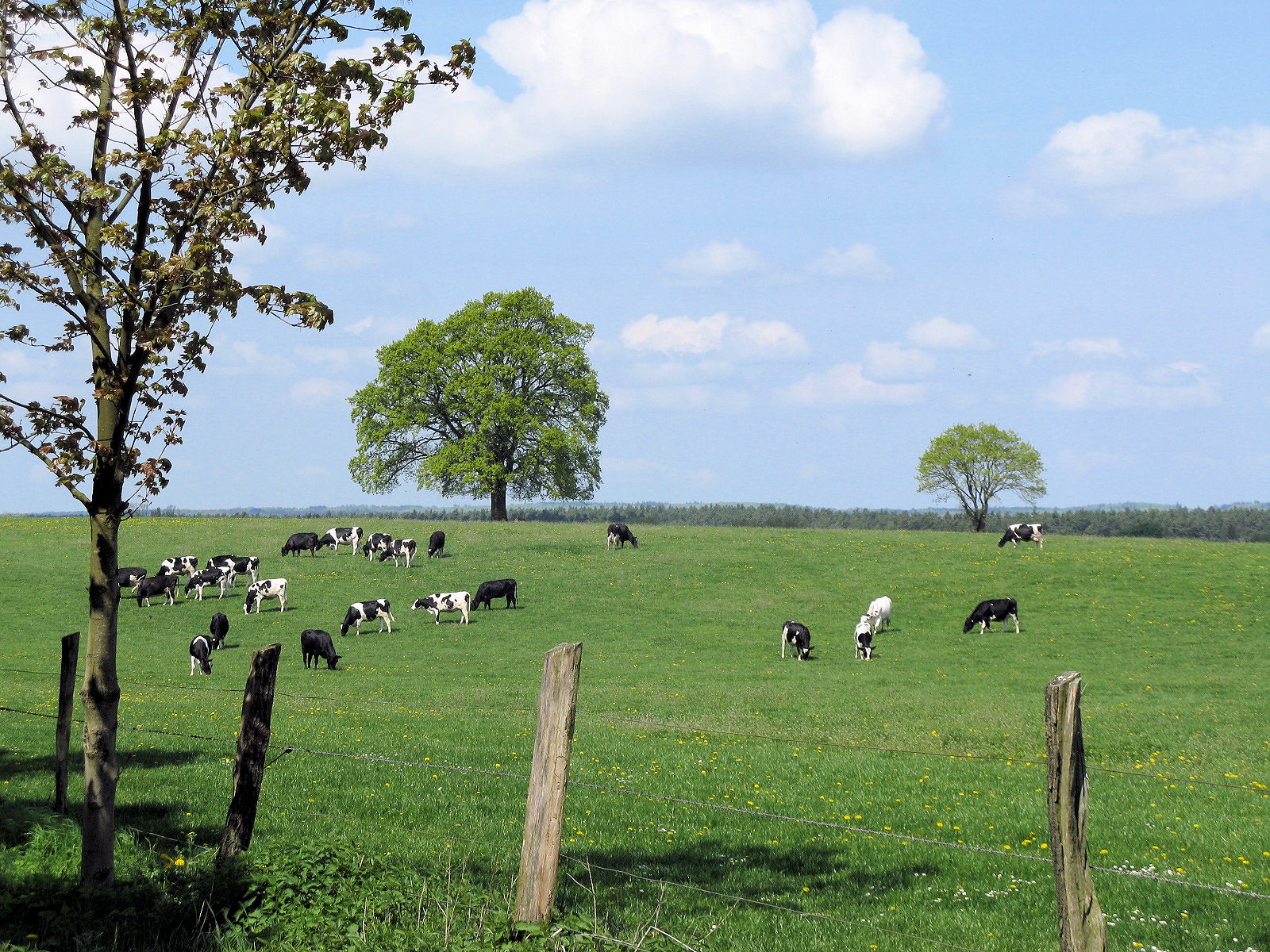 Pasture near Drenkow, Mecklenburg-Vorpommern, Germany